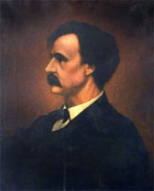 by John Turner, made between 1840 and 1859[1]